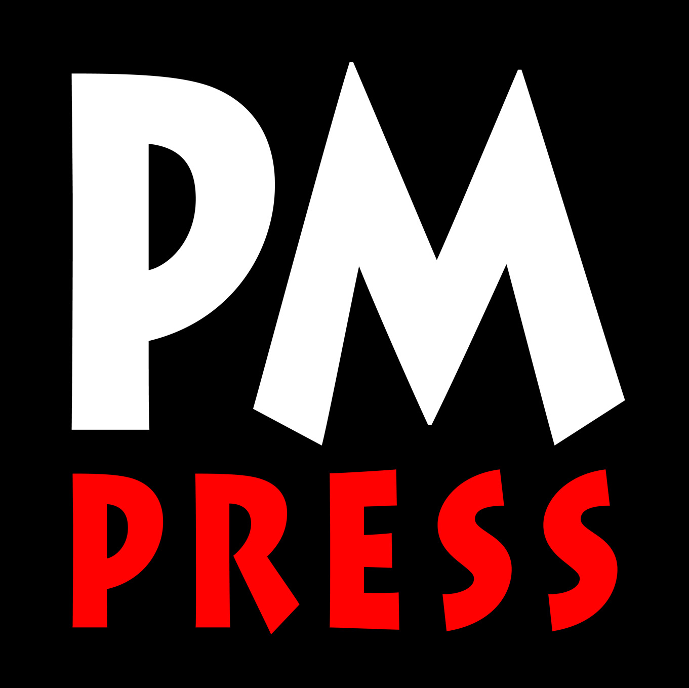 Logo of publishing house PM Press